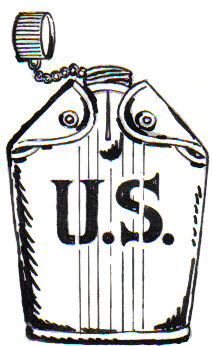 line art drawing of canteen.